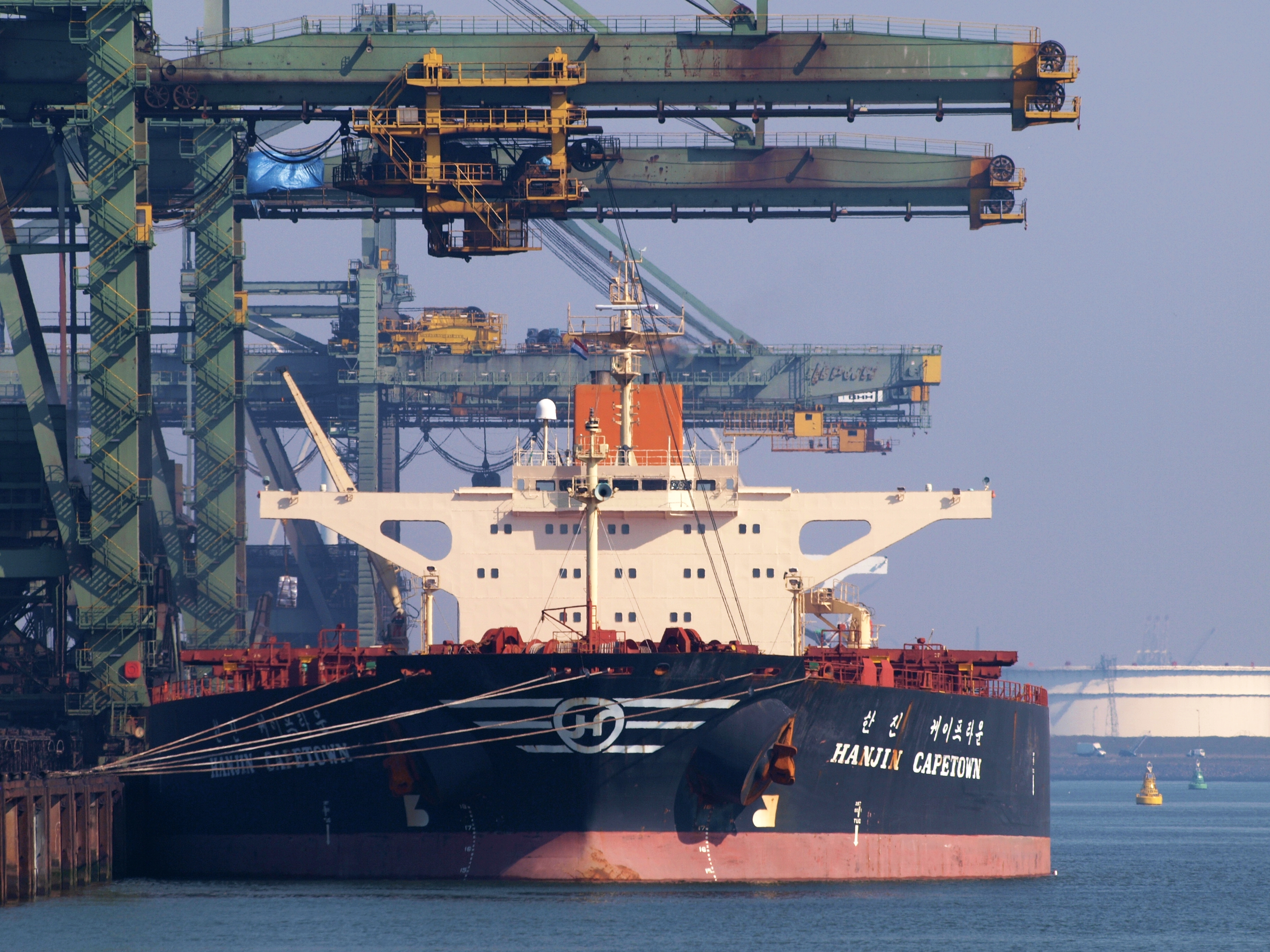 Photographed in and around the harbours of Rotterdam. OLYMPUS DIGITAL CAMERA